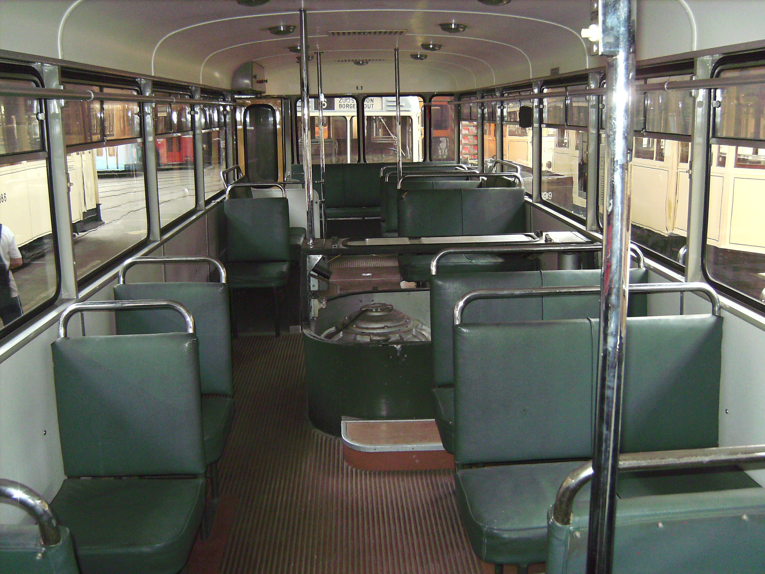 Interior of the Gyrobus G3, the only surviving gyrobus in the world (build in 1955) in the Flemish tramway and bus museum, Antwerp.